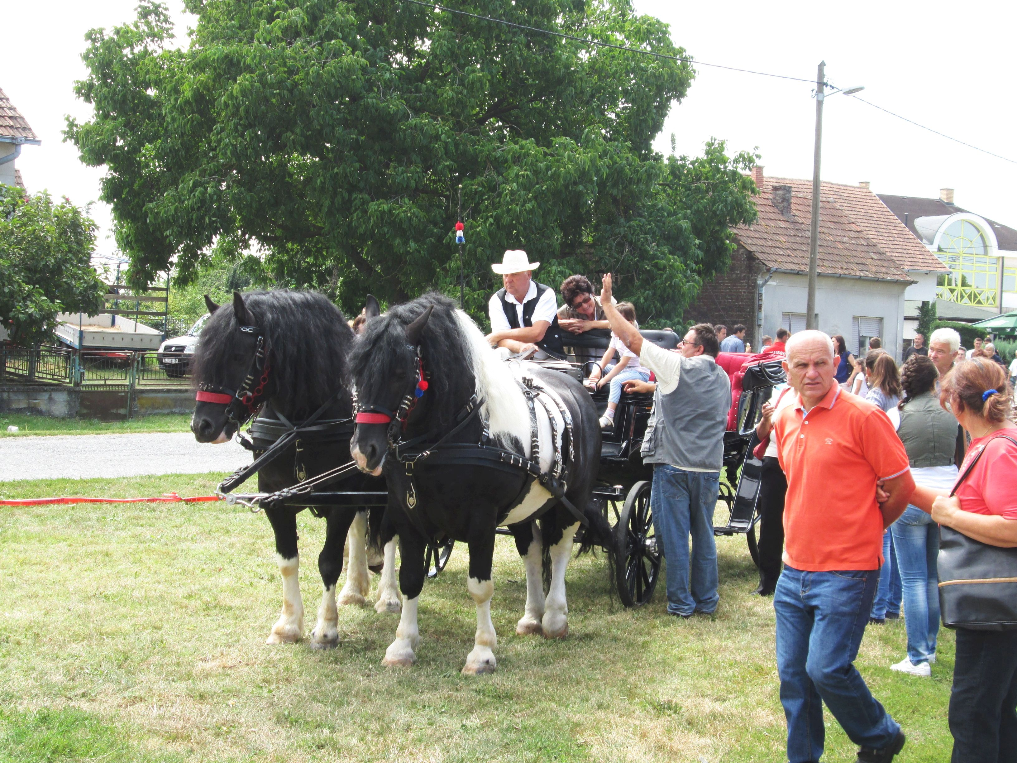 Nova Rača, Croatia